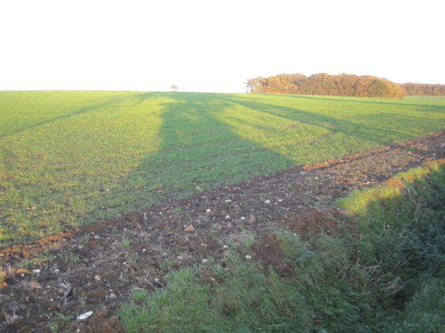 Chrishall Common Roughway Wood is the distant clump of trees beyond the winter wheat.